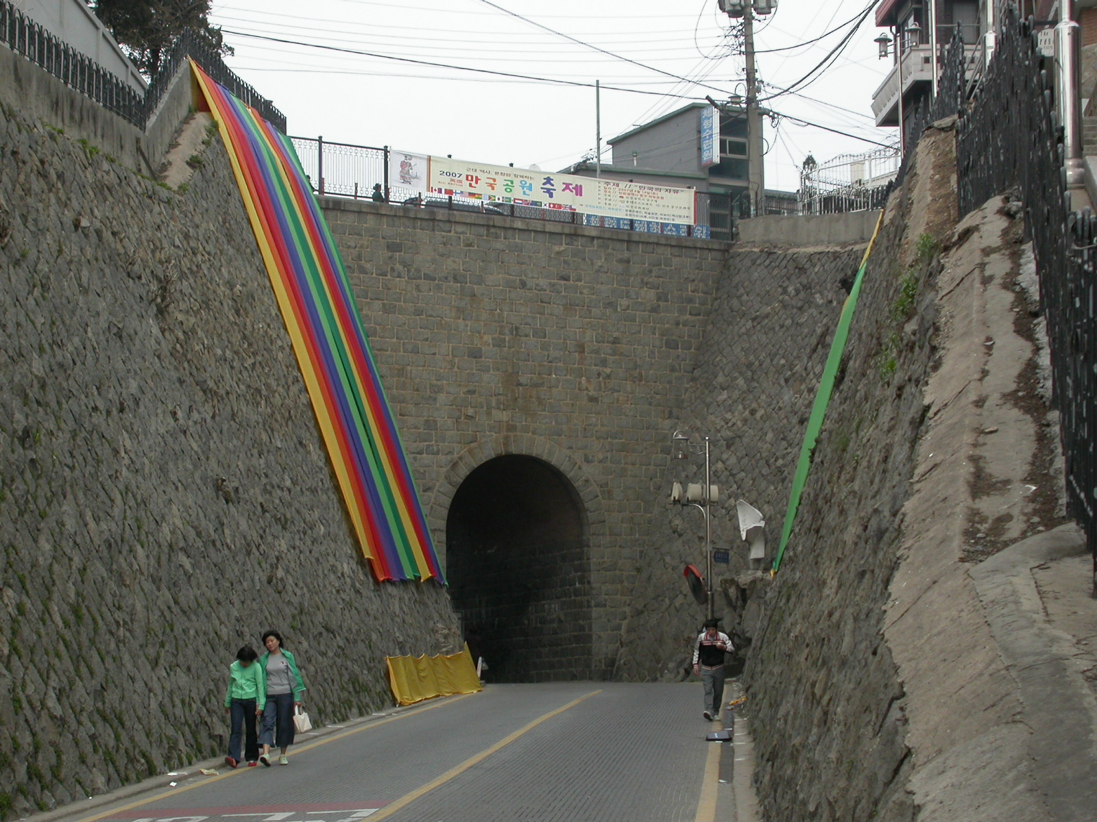 Incheon Hongyemun